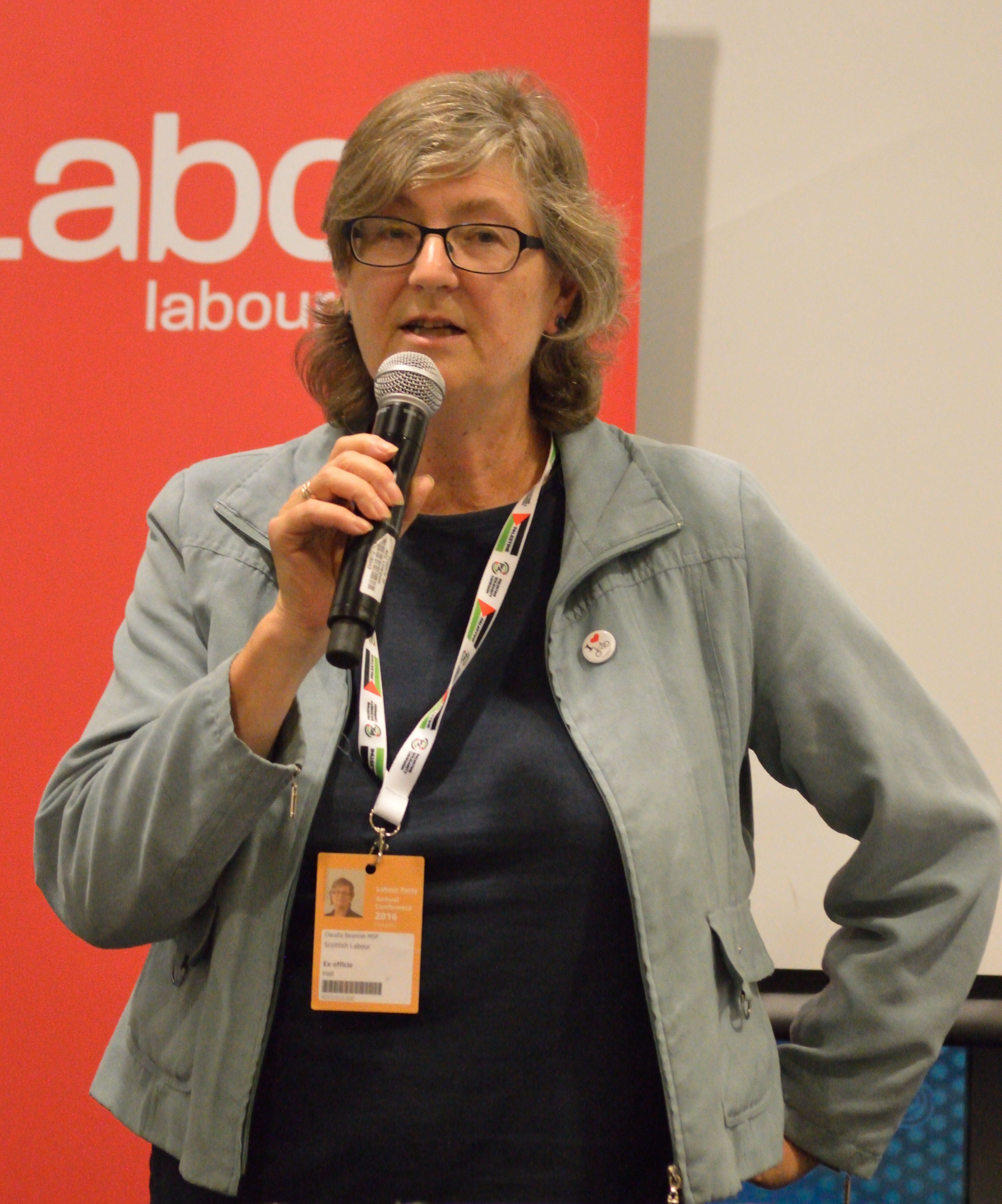 Claudia Beamish MSP at the 2016 Labour Party Conference in Liverpool, speaking at the Sustainability Hub Reception organised by the Socialist Environment and Resources Association (SERA).